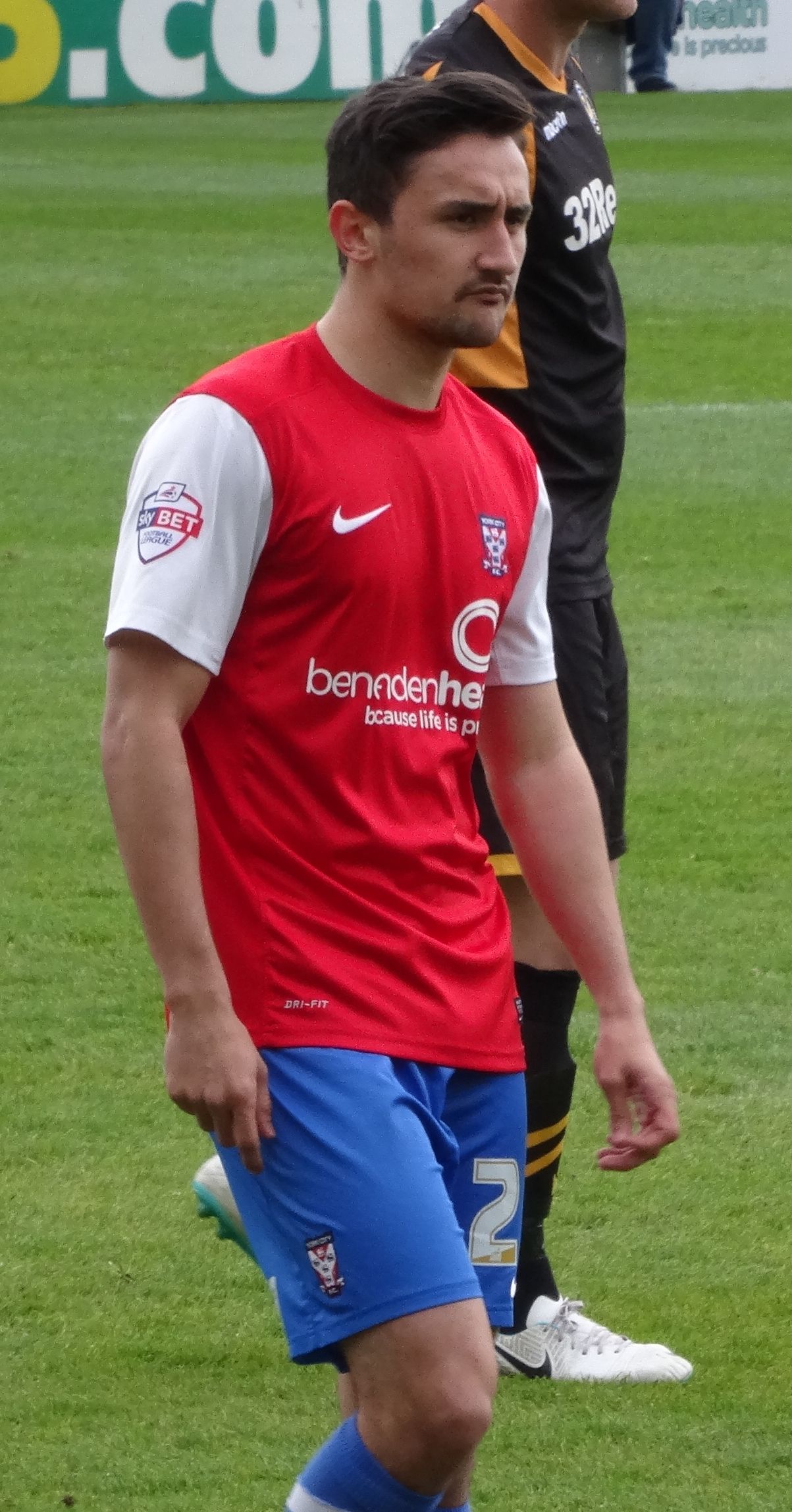 Ryan Brobbel playing for York City against Newport County at Bootham Crescent, York on 26 April 2014